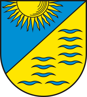 Coat of arms of the former Amt (county) Gelting in Schleswig-Holstein, Germany.